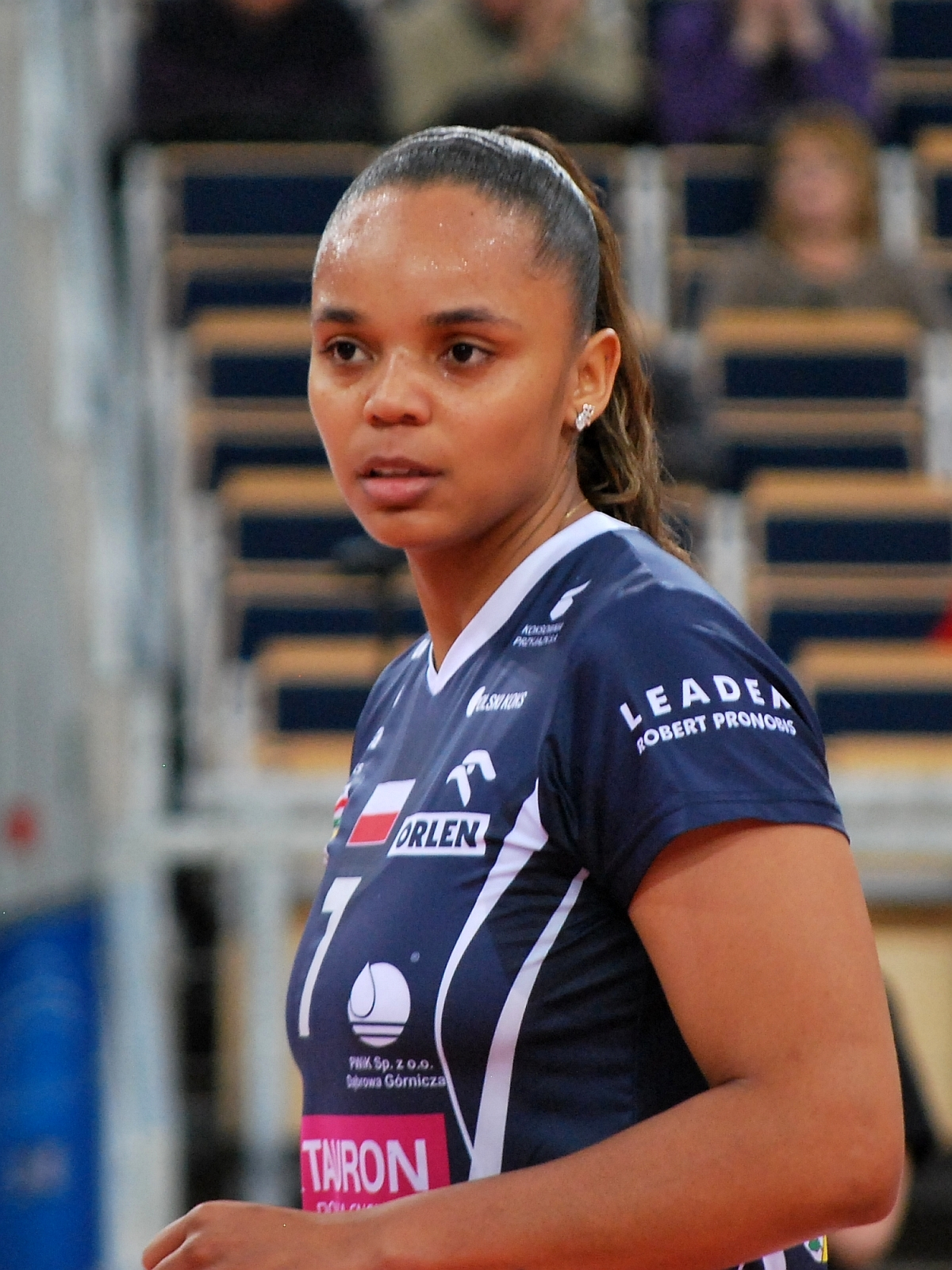 Wélissa Gonzaga, volleyball player from Brazil